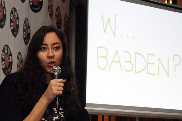 Maya Zankoul presenting at the 1st Creative Commons Salon in Beirut